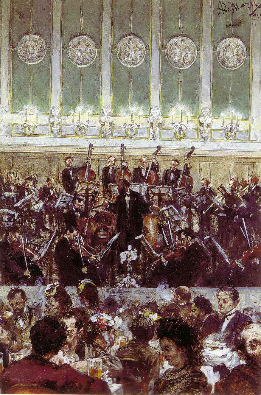 Concert of Berlin Bilsekapelle, Benjamin Bilse conducting